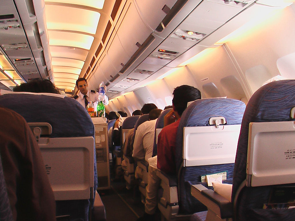 On Board Pakistan Intl Airlines.